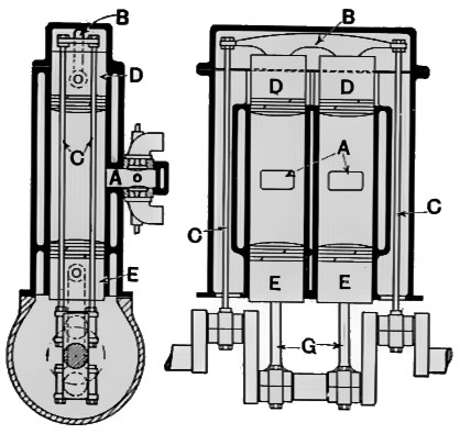 'Ch. II 'Fig. 34 Diagrammatic section of the Gobron engine The opposed-piston engine used in Gobron-Brillié cars. Unusually for an opposed piston engine, there was only a single crankshaft. The lower pistons were driven conventionally, the upper pistons were driven by long connecting rods to a yoke above them. As for other engines of the period, it used petrol (gasoline) as a fuel, although this was unusual for an opposed-piston, or a cylinder-ported four-stroke engine. AValve pocketBCross headCCoupling rodsDUpper pistonsELower pistonsGOrdinary connecting rods